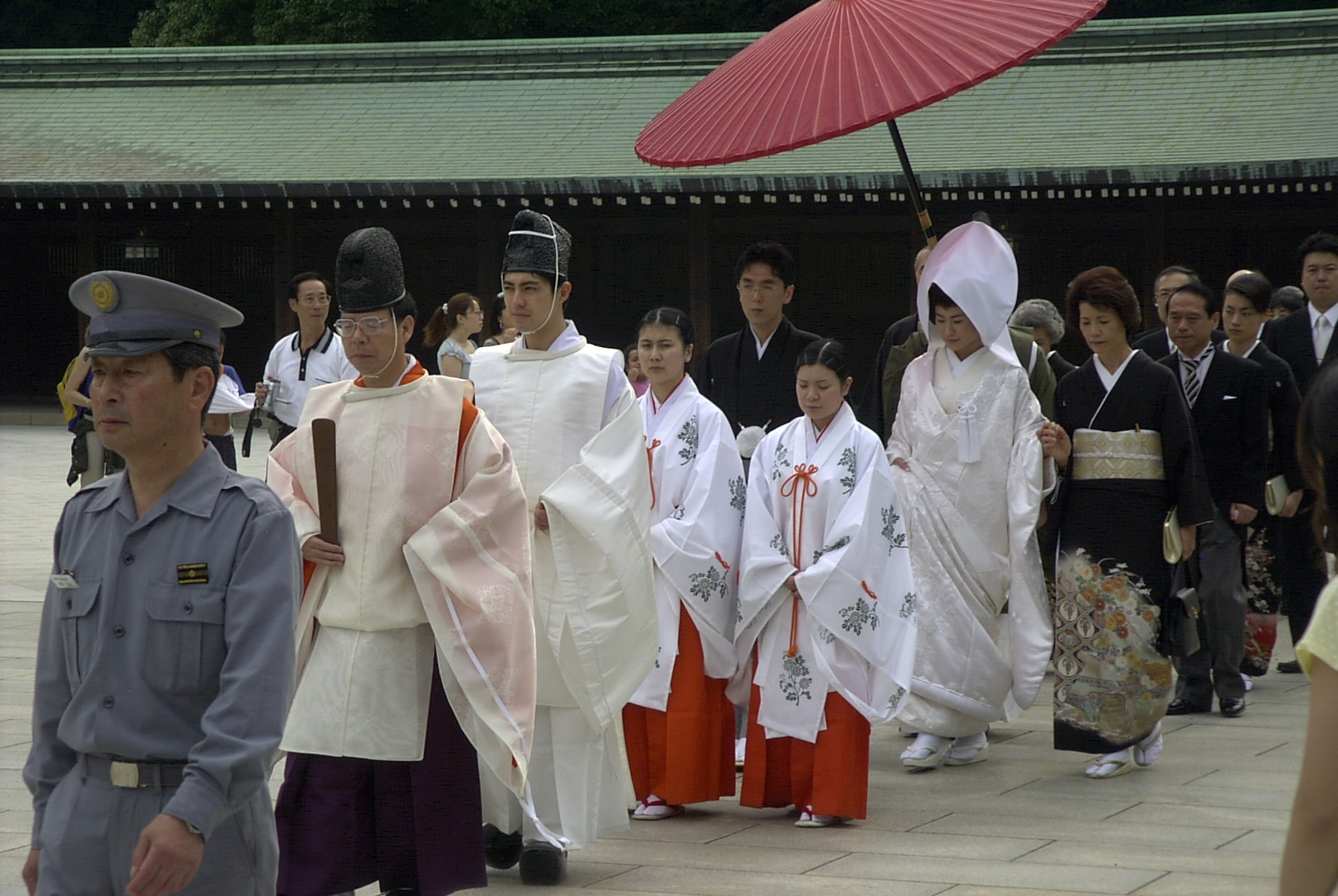 Meiji Shrine